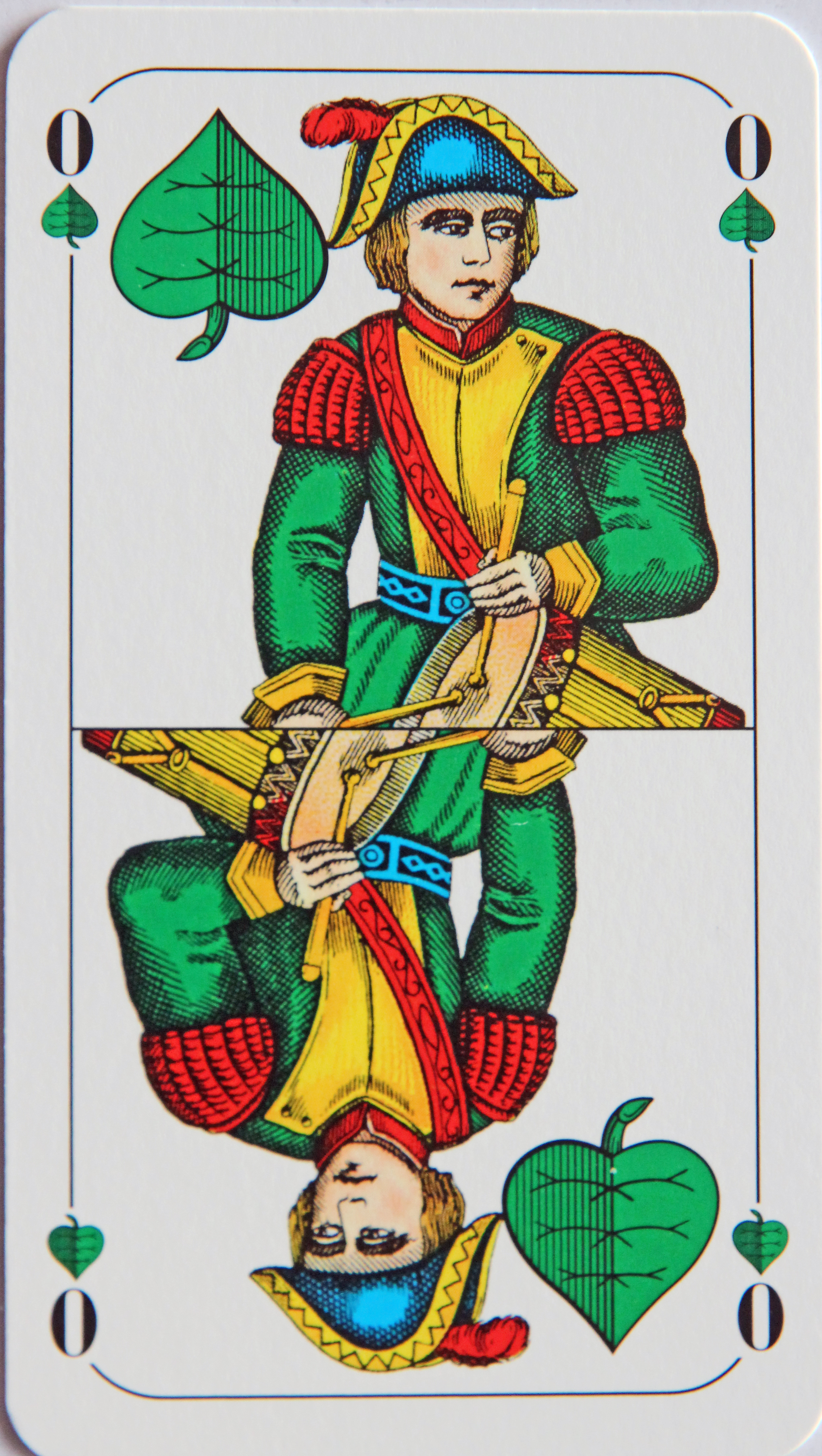 The Grasober, Ober of Leaves, from a Bavarian pattern, German-suited pack